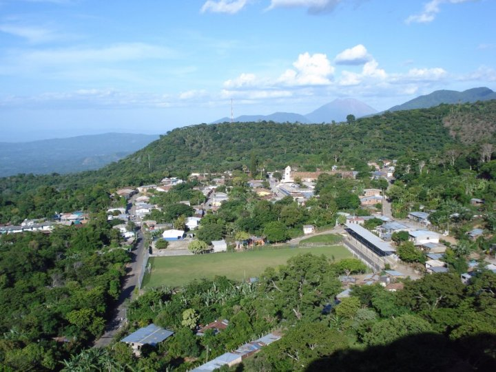 Ciudad de Alegría, Departamento de Usulután, El Salvador.